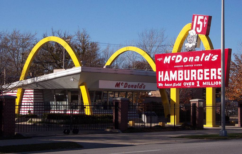 McDonalds museum (Ray Kroc's first ( April 1955) franchised restaurant in the chain, similar in style to the McDonald brothers 1953 franchised restaurants in Phoenix, Arizona and Downey, California ), Des Plaines, Illinois, USA.